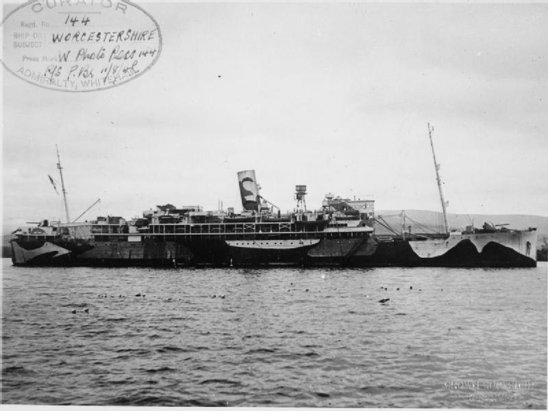 HMS Worcestershire Stationary.